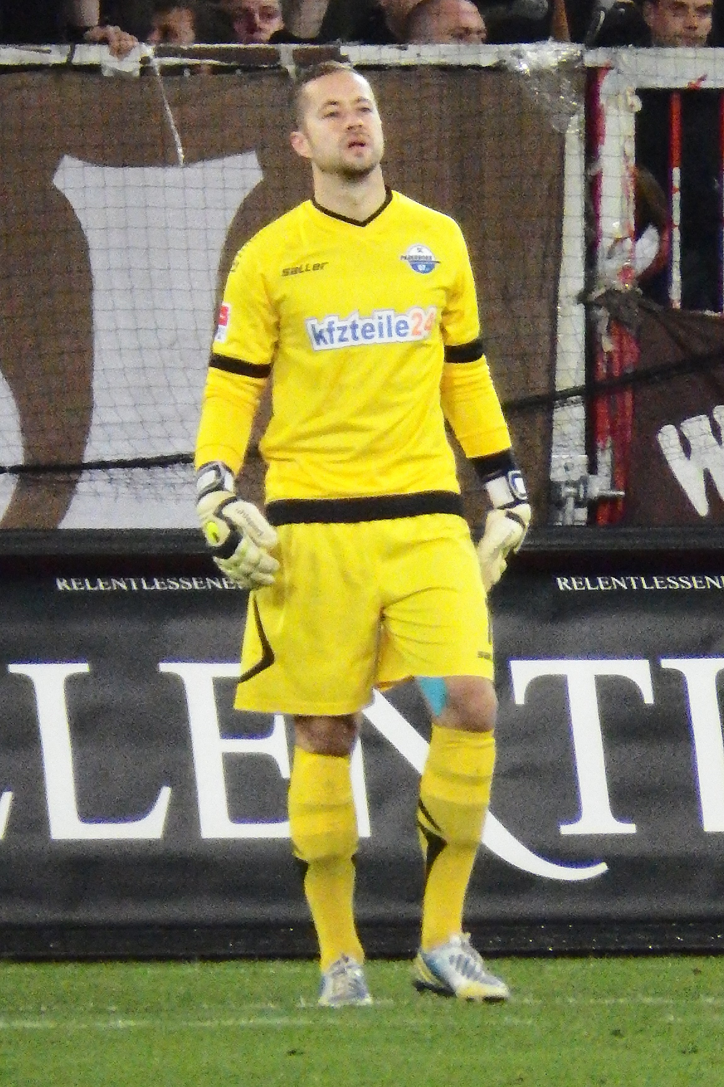 Lukas Kruse as Player of SC Paderborn